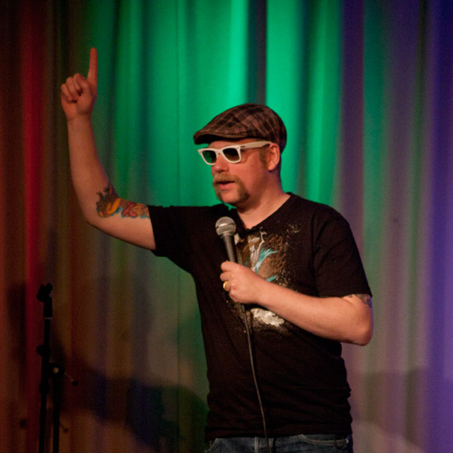 Rufus Hound, Comedy In The Green. Cropped